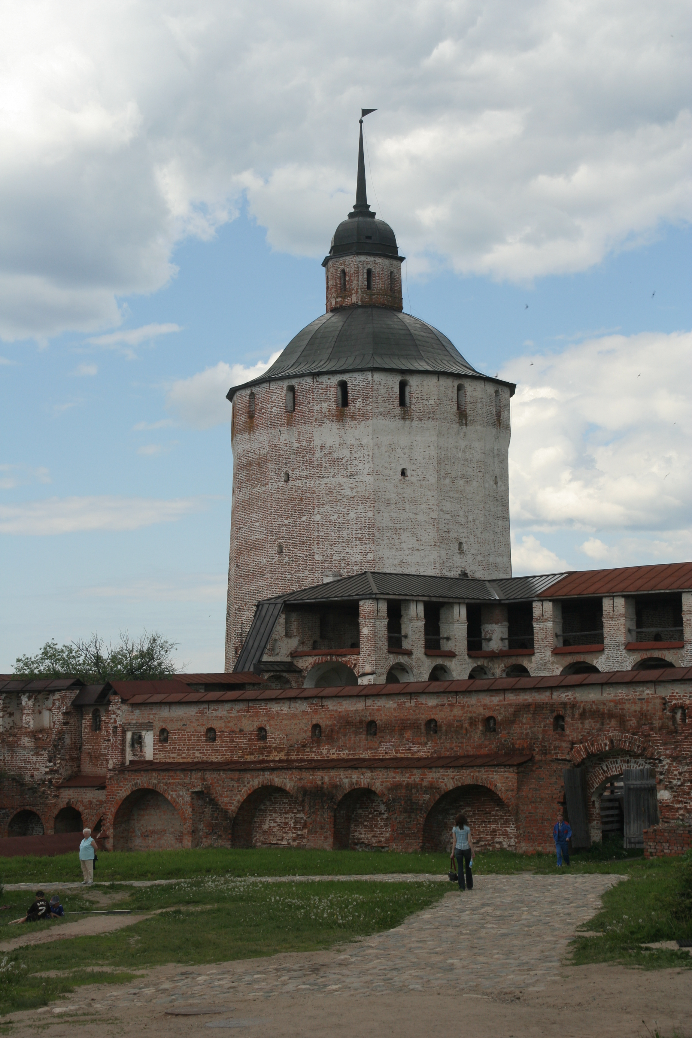 Kirillo-Belozersky monastery. Belozerskaja Tower. The other names are the Great (Bolshaja) Merezhennaja Tower, the Ozernaja (Lake) Tower